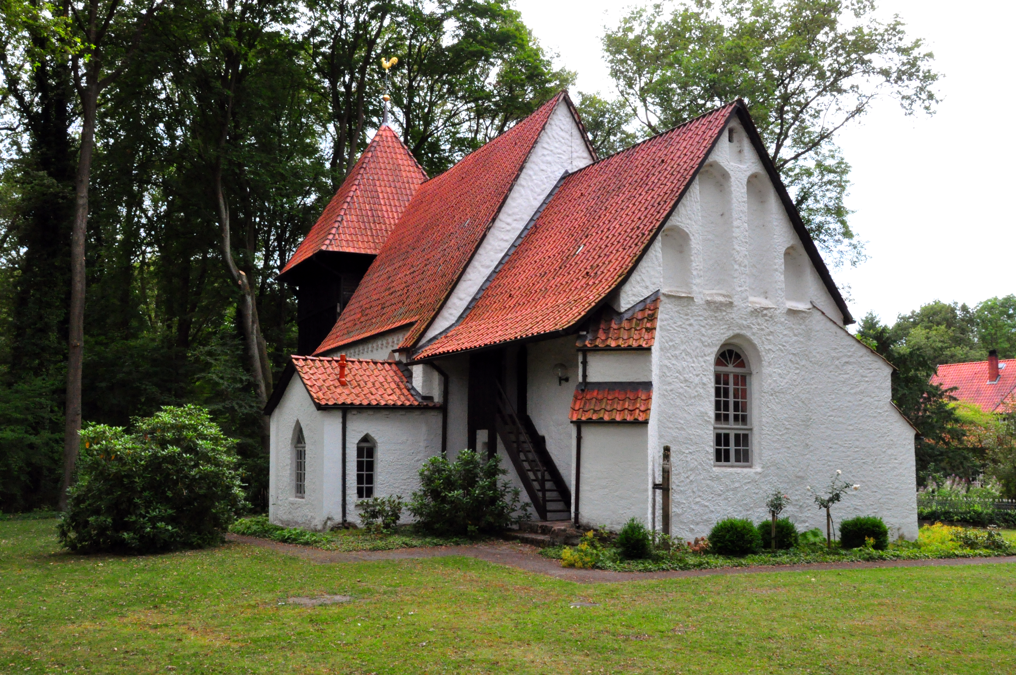 St. George Church of Meinerdingen (in the near of Walsrode in the Lüneburg Heath, Germany)